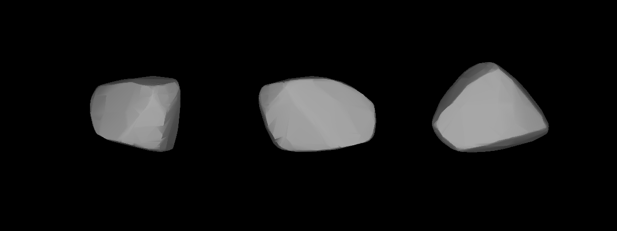 A three-dimensional model of 62 Erato that was computed using light curve inversion techniques.